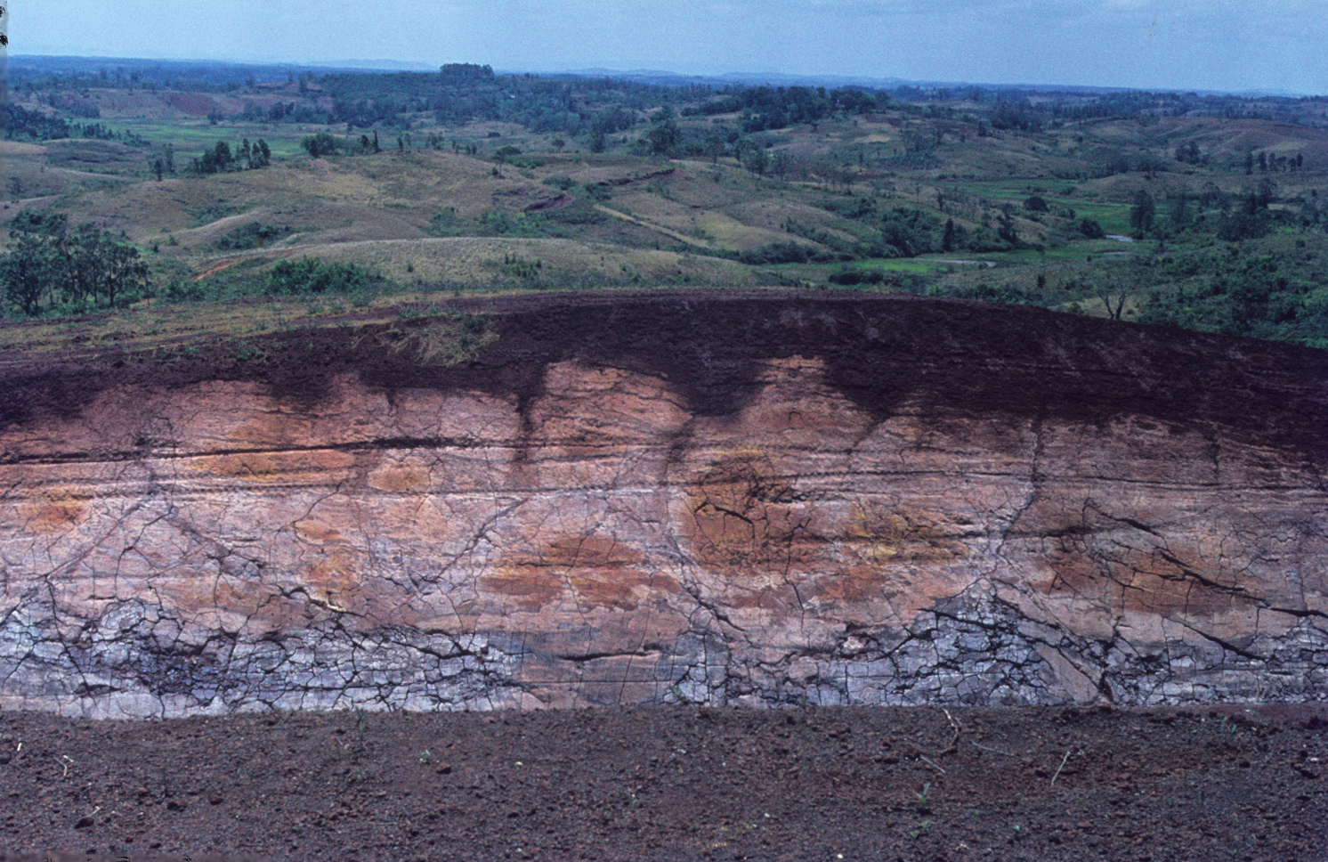 Irregular weathering of basaltic tuff (bluish-white) to saprolite (yellowish-white) and laterite (dark brown) in a dissected landscape, Vangaindrano, Madagascar.